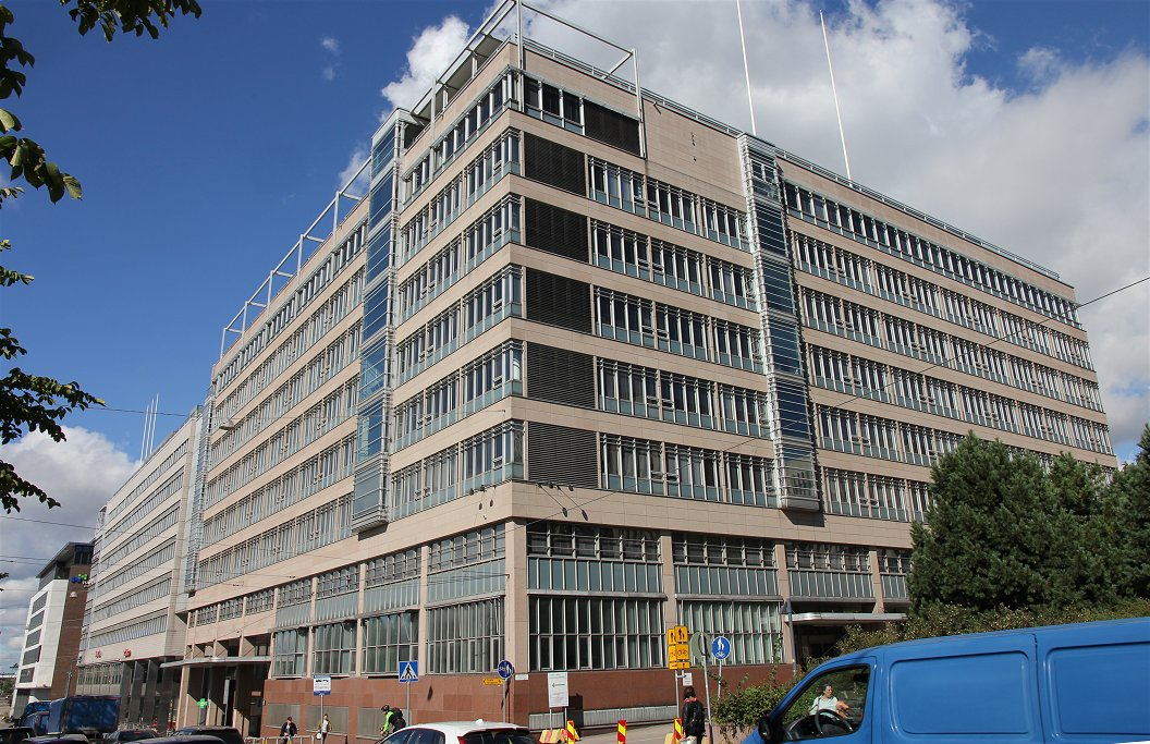 Ratapihanti 9, a government office building in Pasila, Helsinki, Finland